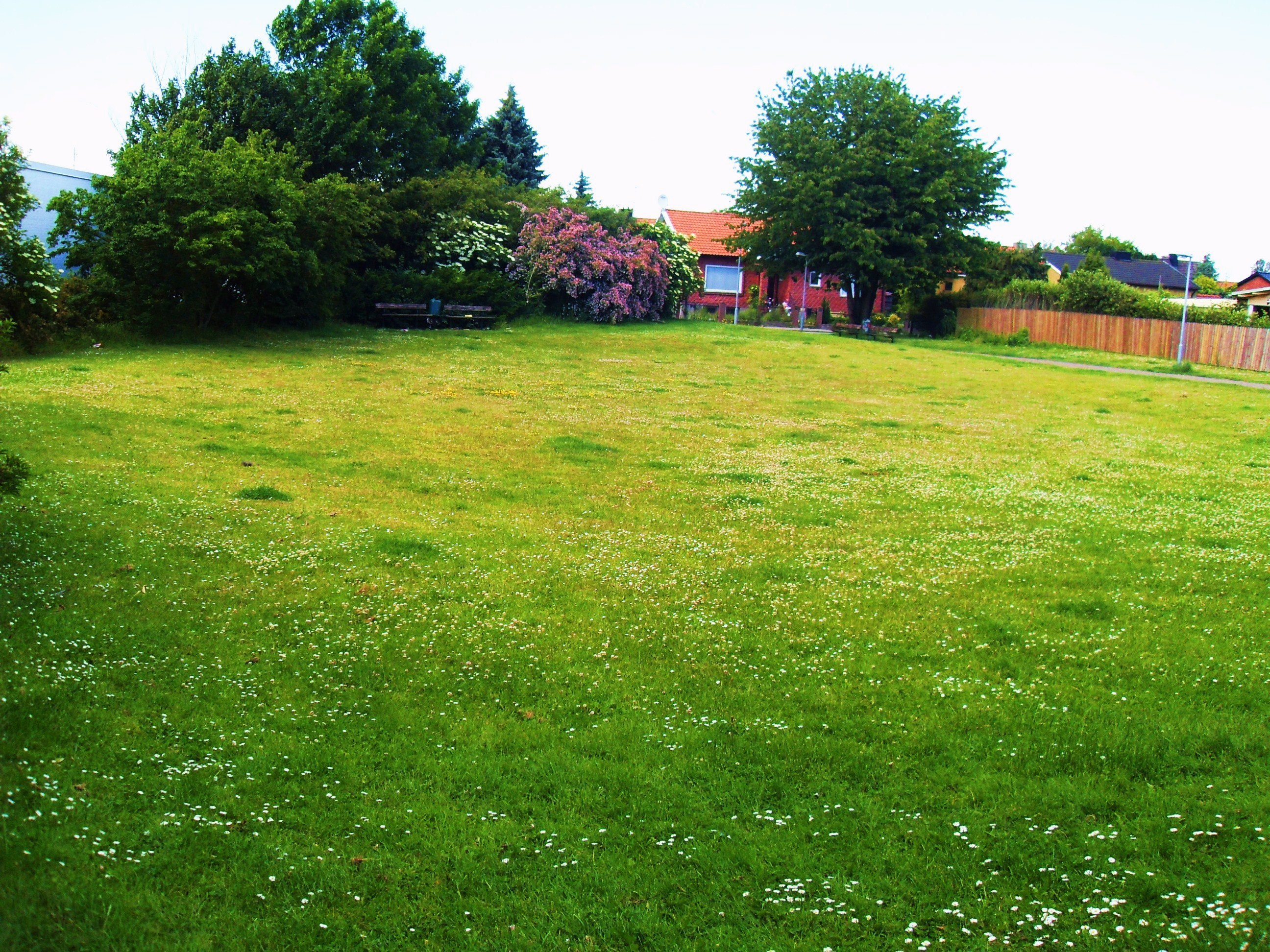 Picture of a park in the area Nydala in Malmo, Sweden